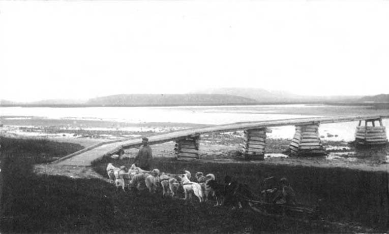 PH Coll 839.4 Subjects (LCTGM): Dog teams--Russia; Sleds & sleighs--Russia; Subjects (LCSH): Sled dogs--Russia (Federation)--Bering Island; Mushers--Russia (Federation)--Bering Island; Wooden bridges--Russia (Federation)--Bering Island